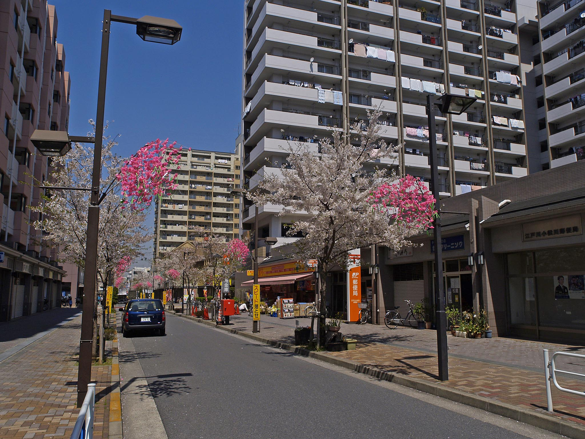 River West Senbon-zakura (meaning "Thousand of cherry blossom trees") Arcade, located at Komatsugawa 3 Chome, Edogawa, Tokyo